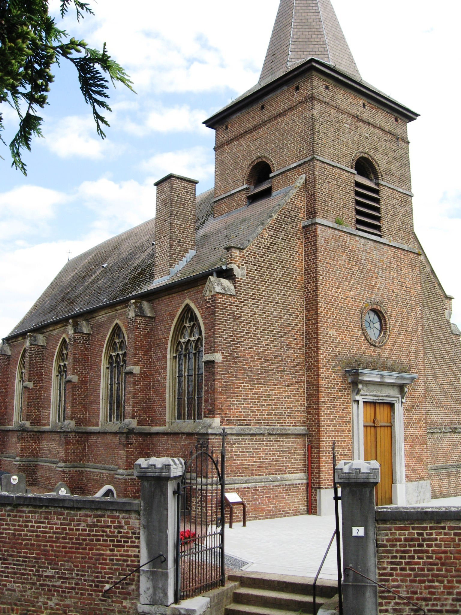 Church of Saint Agatha in Berlingen, Wellen, Limburg, Belgium